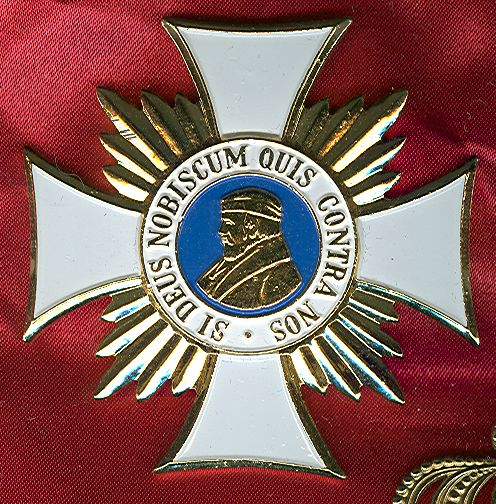 Scan of a cross in my posession. Breastcross of a (civilian) commander